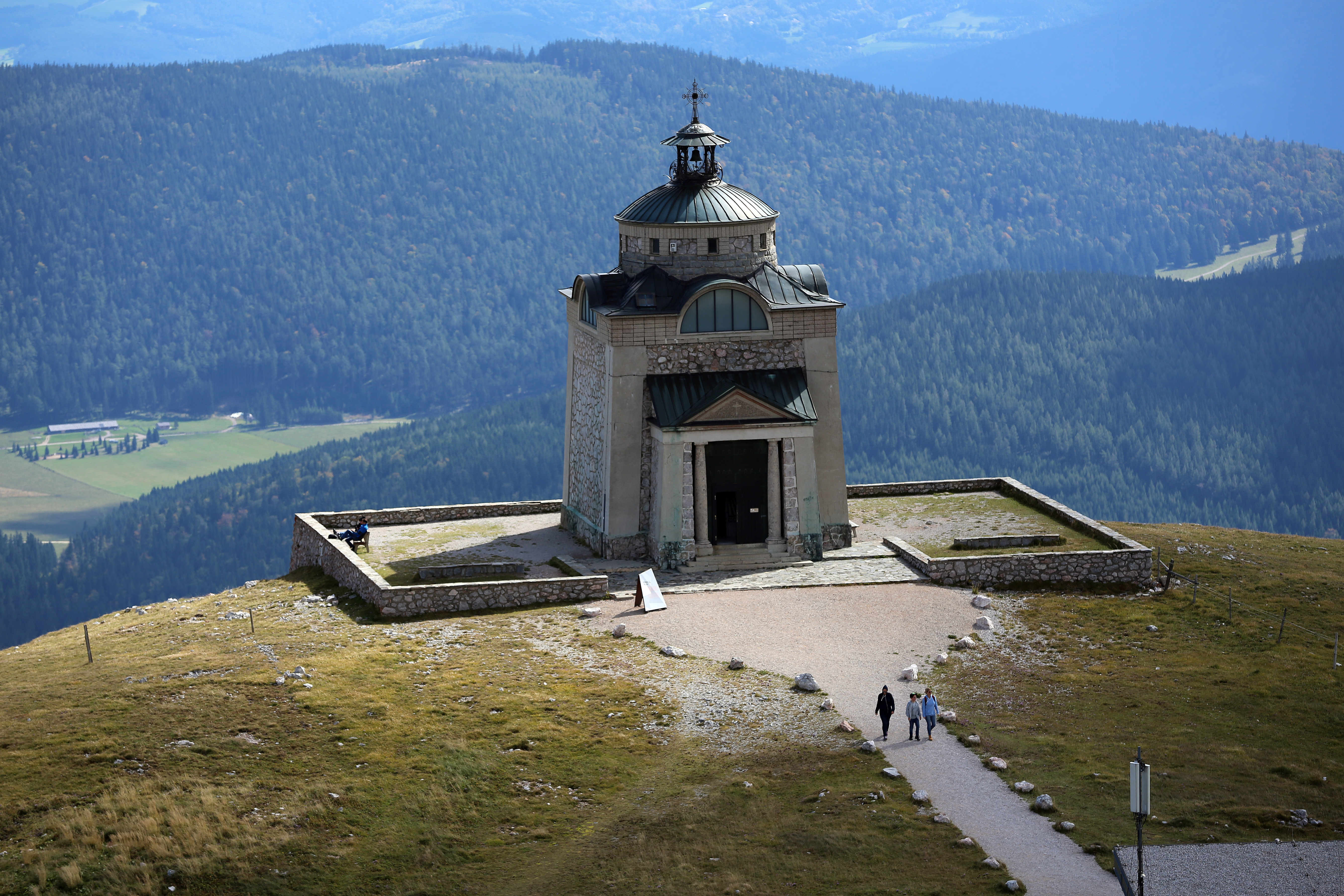 Empress Elisabeth Memorial Church on Schneeberg in Lower Austria, Austria.